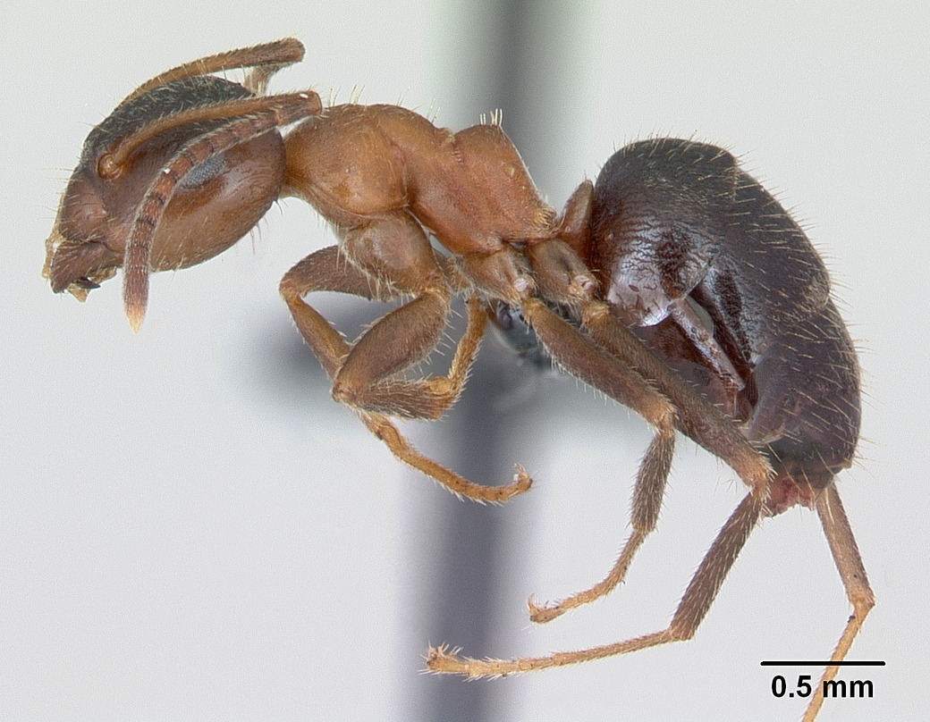 Profile view of ant Lasius emarginatus specimen casent0172762.